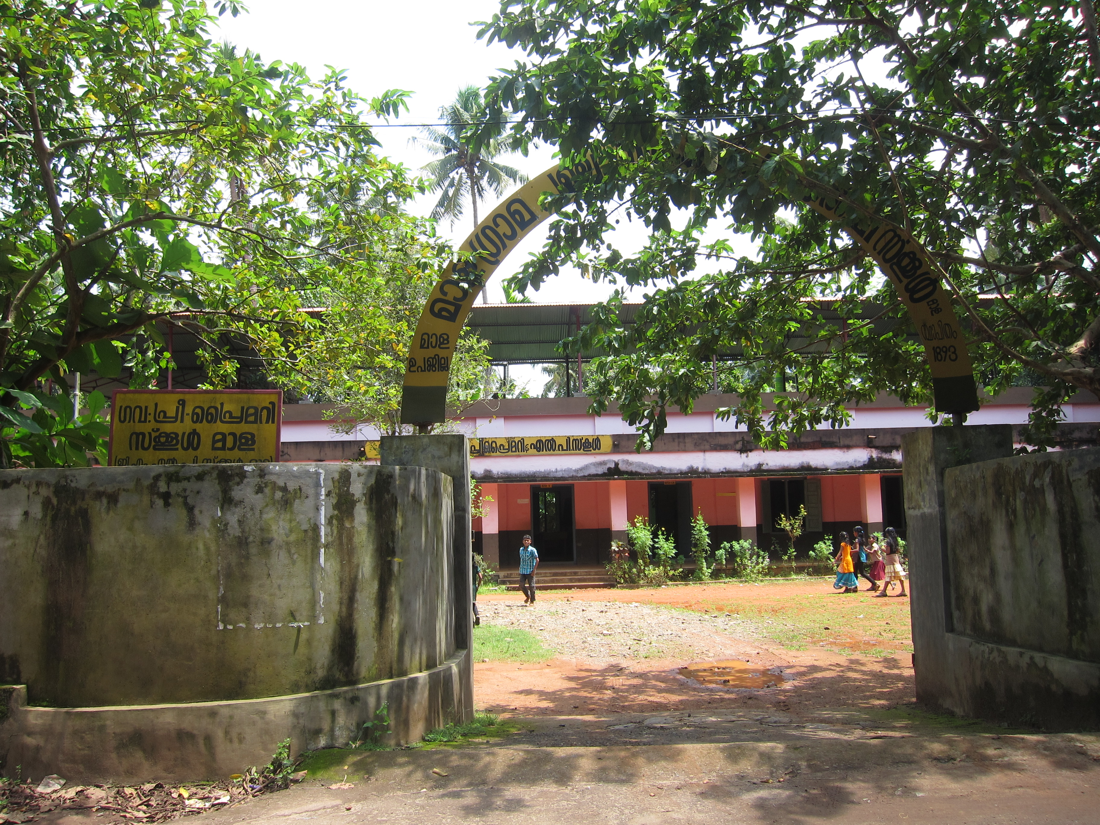 Govt. Pre-primary and L.P School, Mala